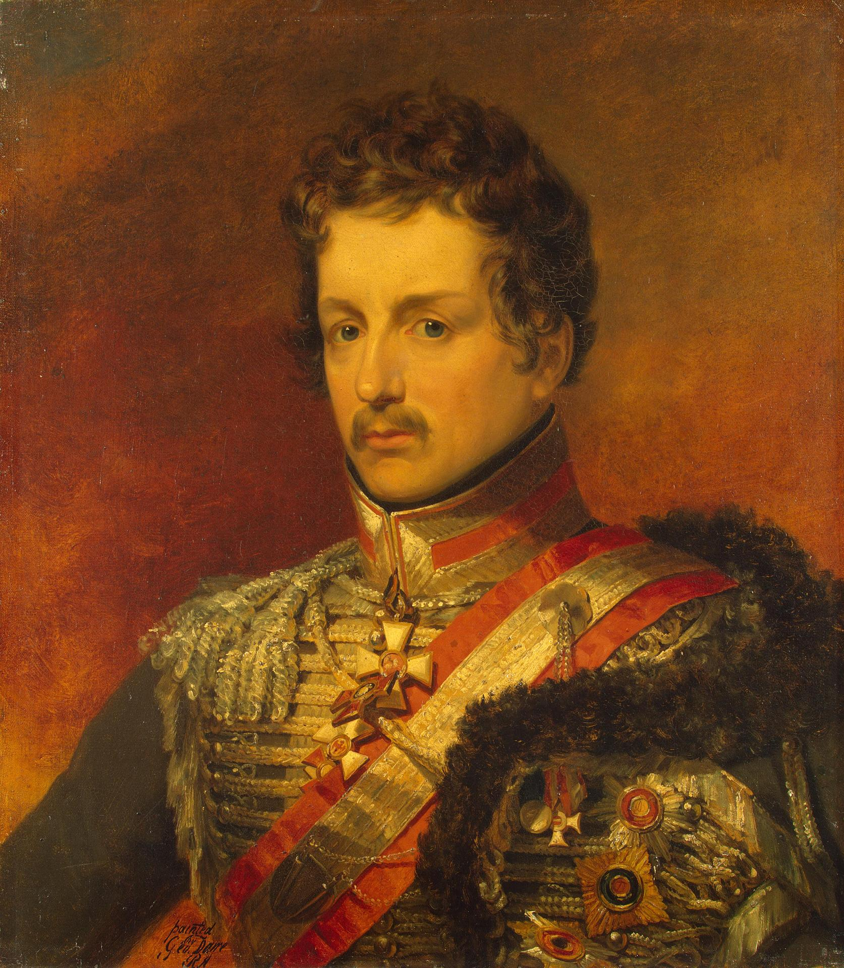 Portrait of Peter Graf von der Pahlen (Пётр Петрович Пален, 1778-1864), russian Cavalry General.